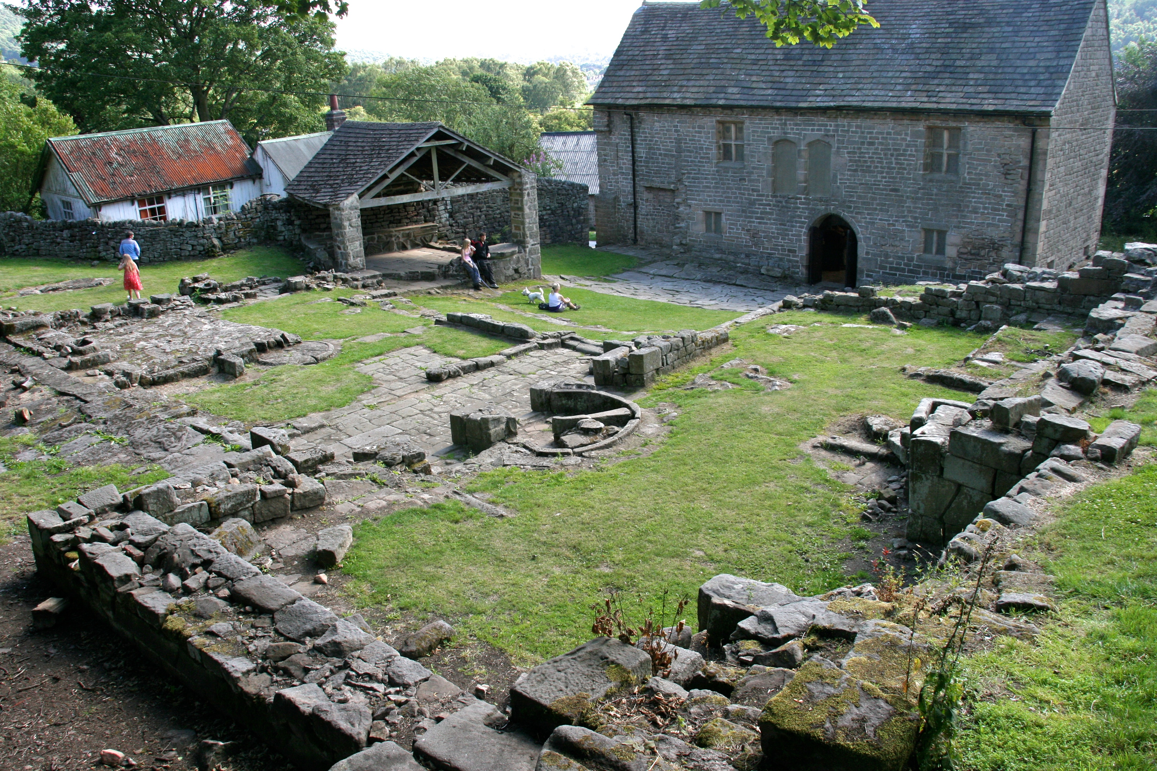 Padley Chapel, Grindleford, Peak District